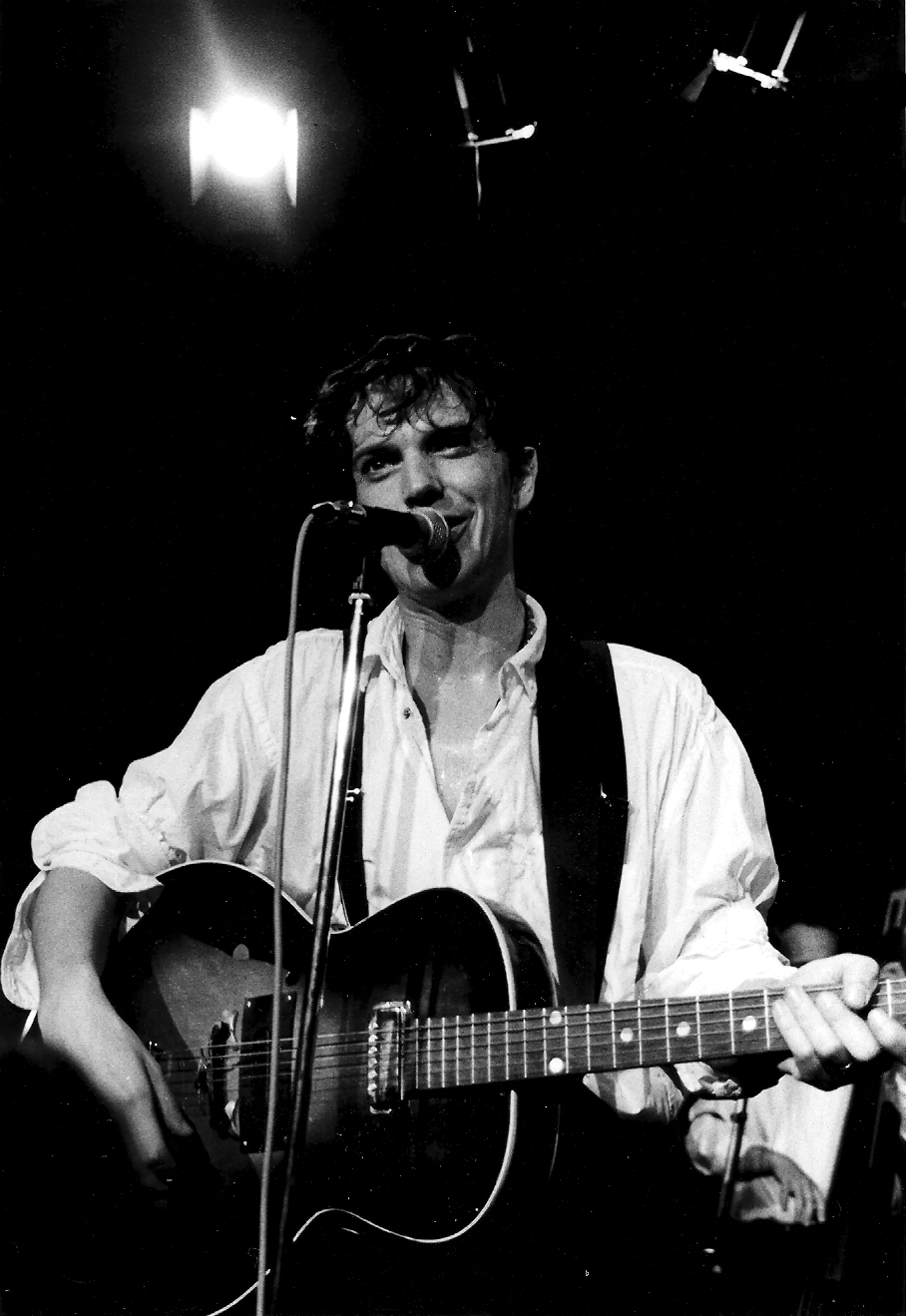 Swedish singer/songwriter Lars Demian in concert at ”Videocafét”, Linköping, Sweden.